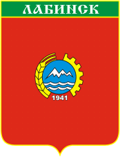 Labinsk (Krasnodar krai), coat of arms (1990s)